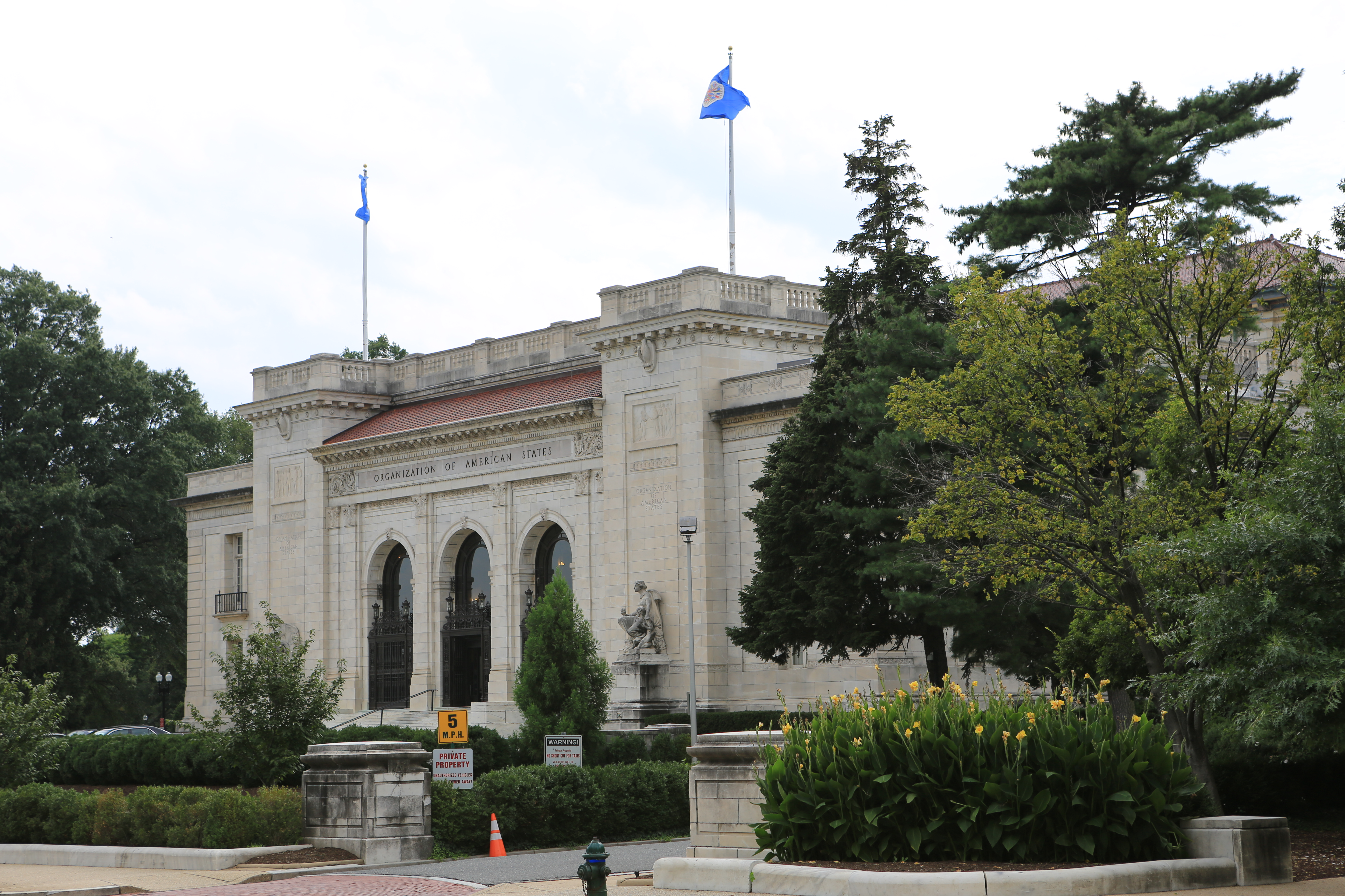 Organization of American States - OAS Building in Washington, D.C.